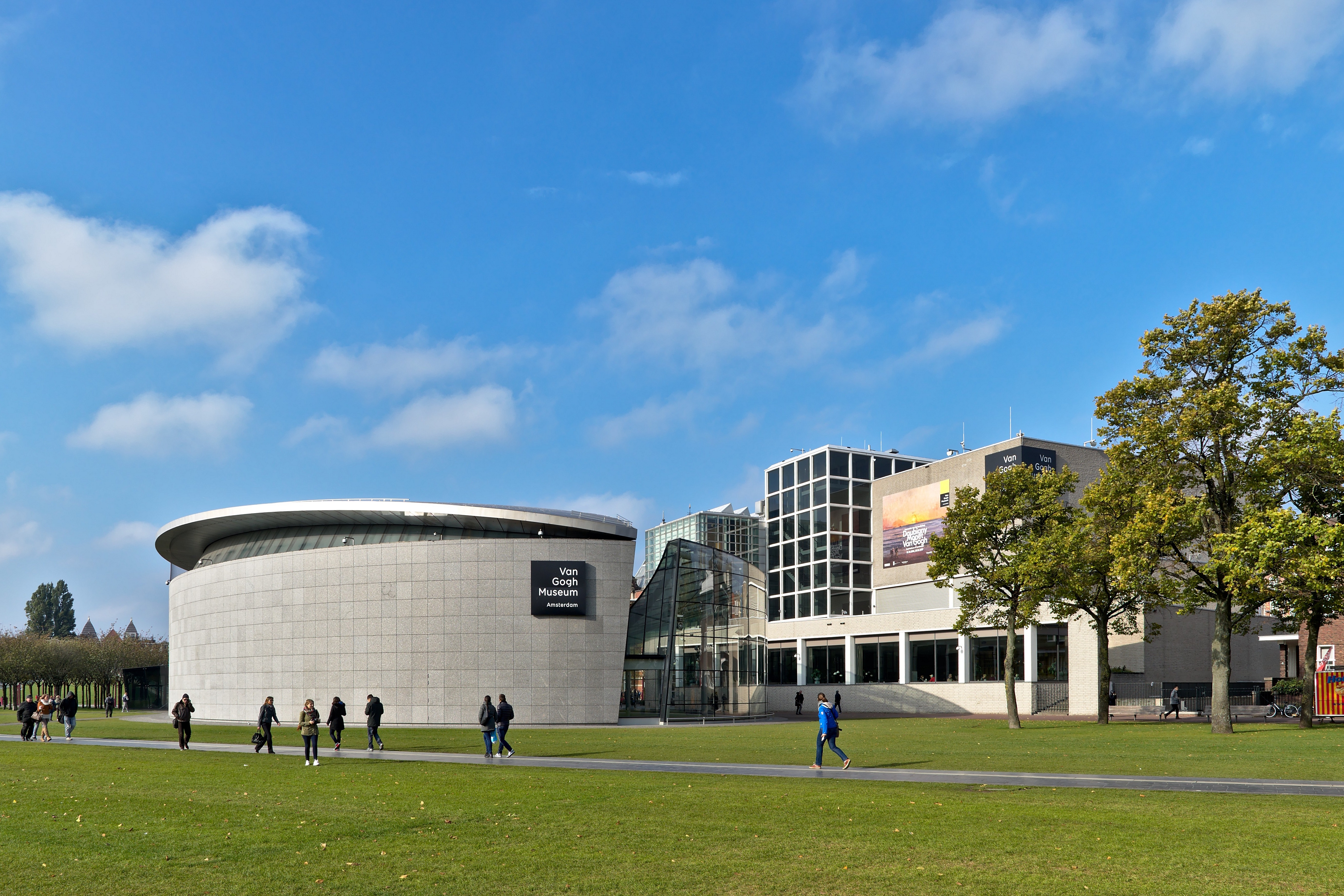 The exhibition wing of the Vang Gogh Museum, Amsterdam, designed by Kisho Kurokawa, and therefore known as the Kurokawa Wing, seen from the Museumsplein. Also visible is the new entrance hall opened in 2015 (the glass construction on the right).